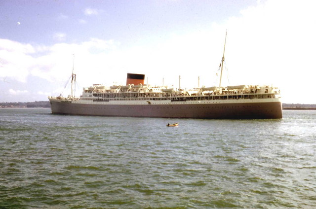 The Liner "Stirling Castle" leaving Southampton June 1962